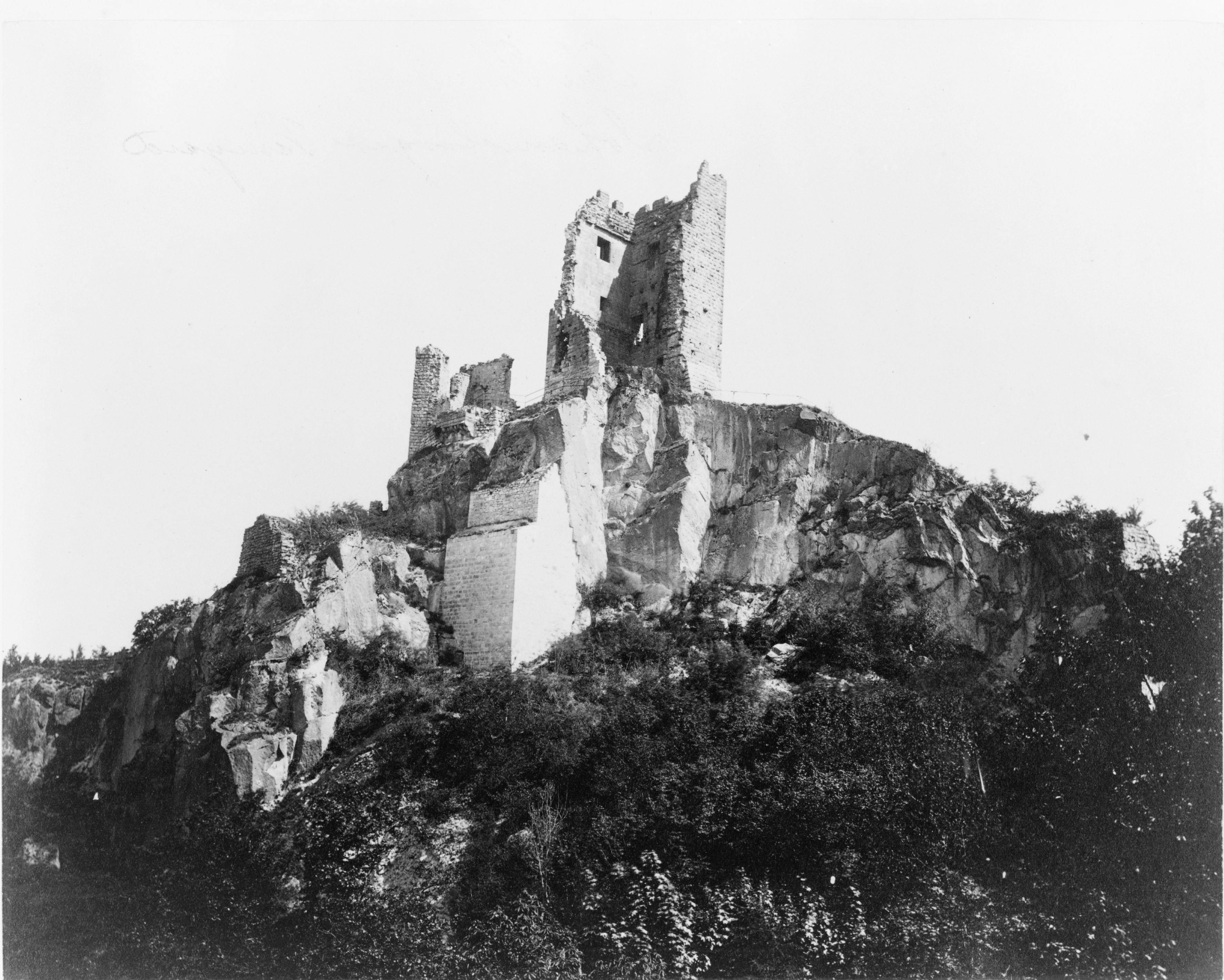 Ruin of the Castle Drachenfels in Königswinter, Germany Original image: Albumen print